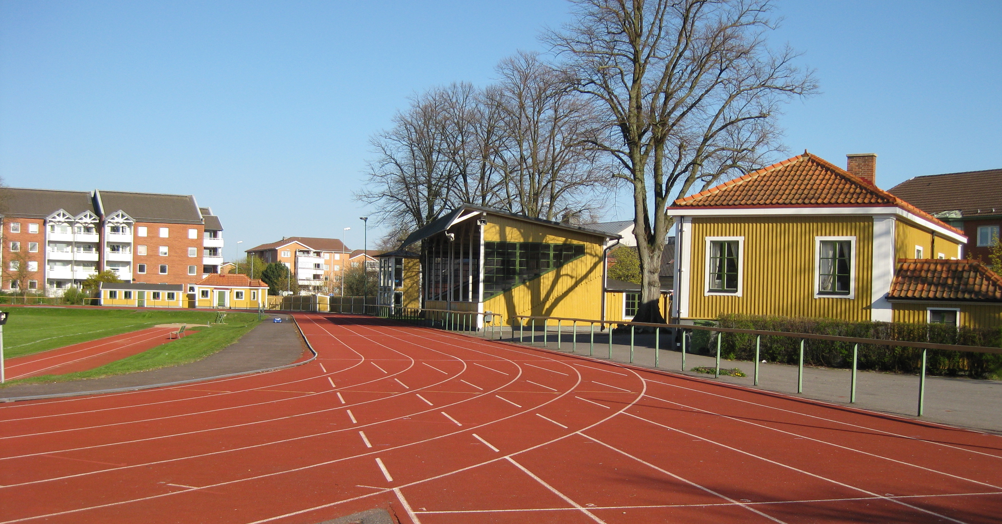 Old outdoor arena in Lund, Sweden